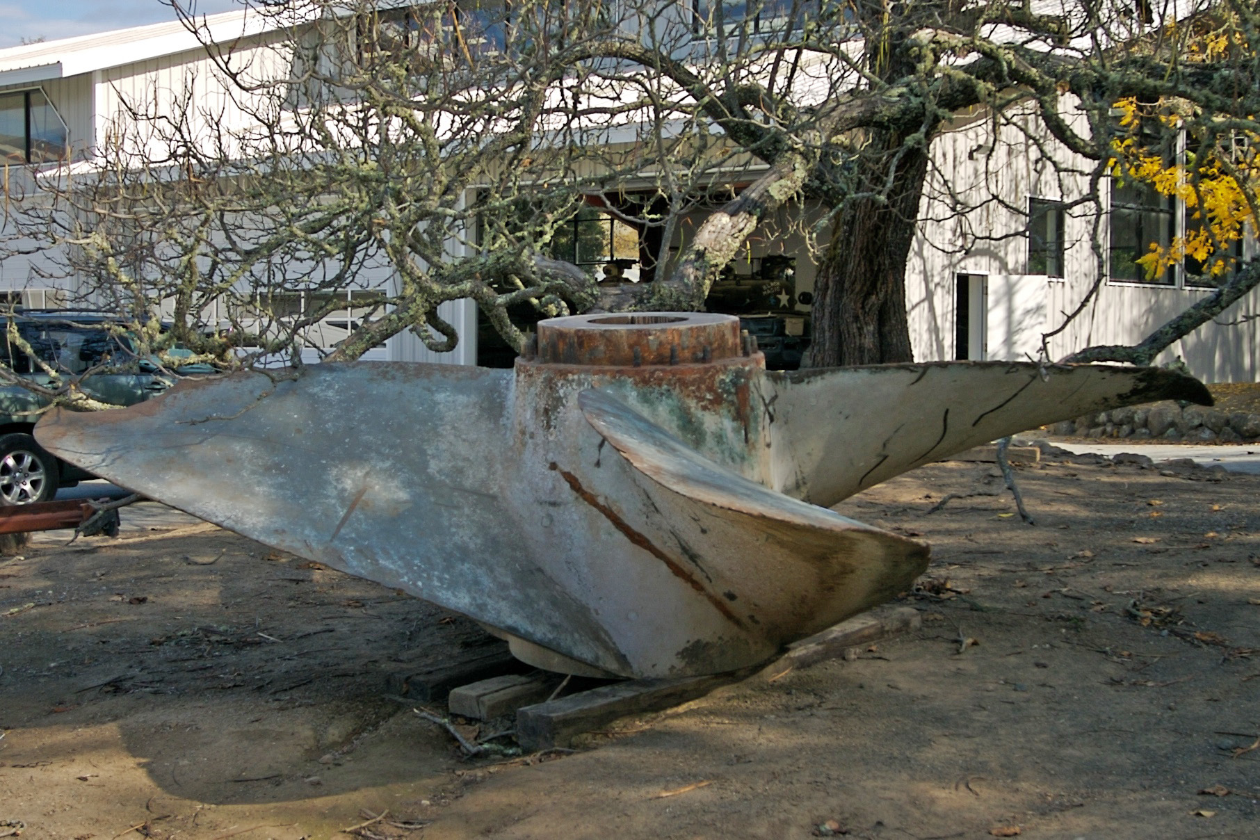 A Quadruple blade Blade propeller from the RMS Lusitania